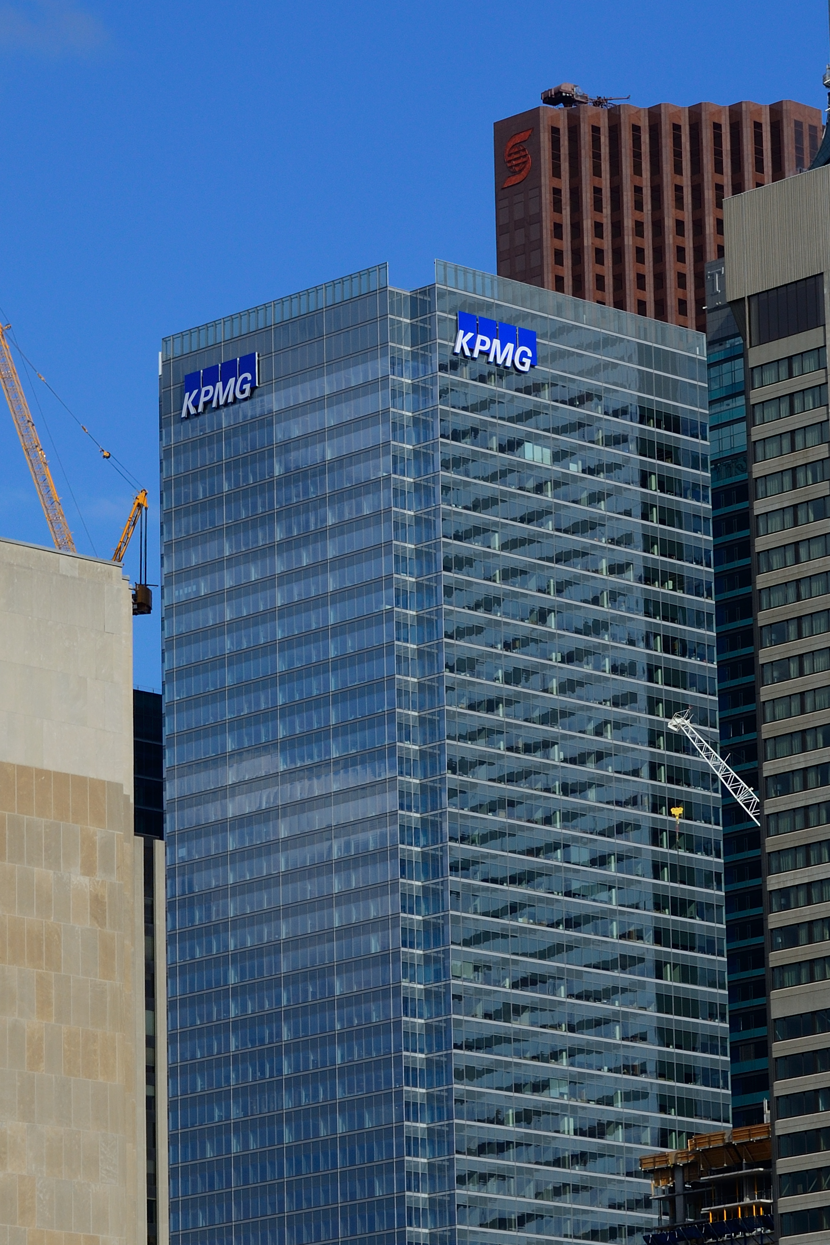 KPMG at Bay Adelaide, Toronto